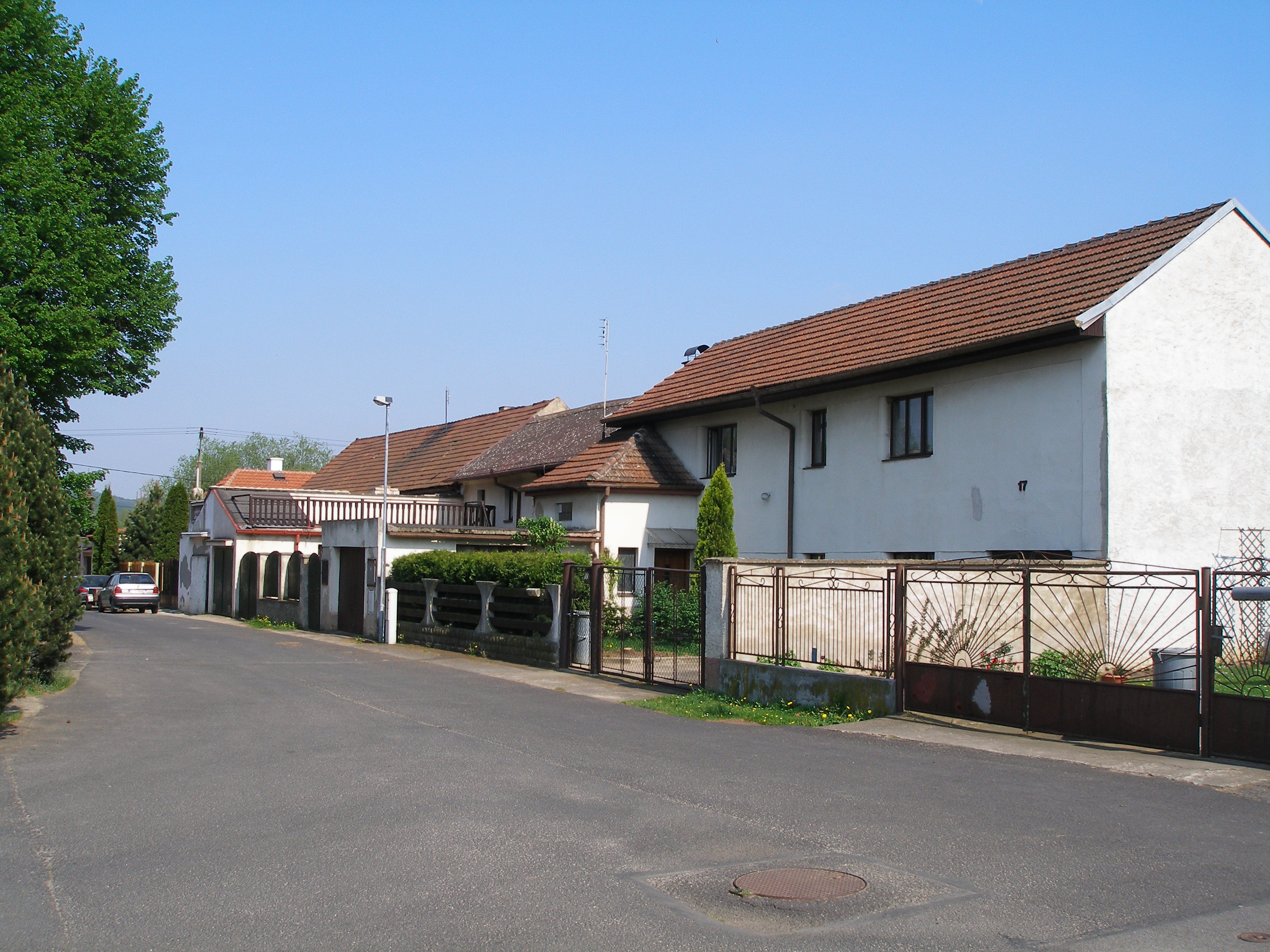 Buildings in Hněvice.